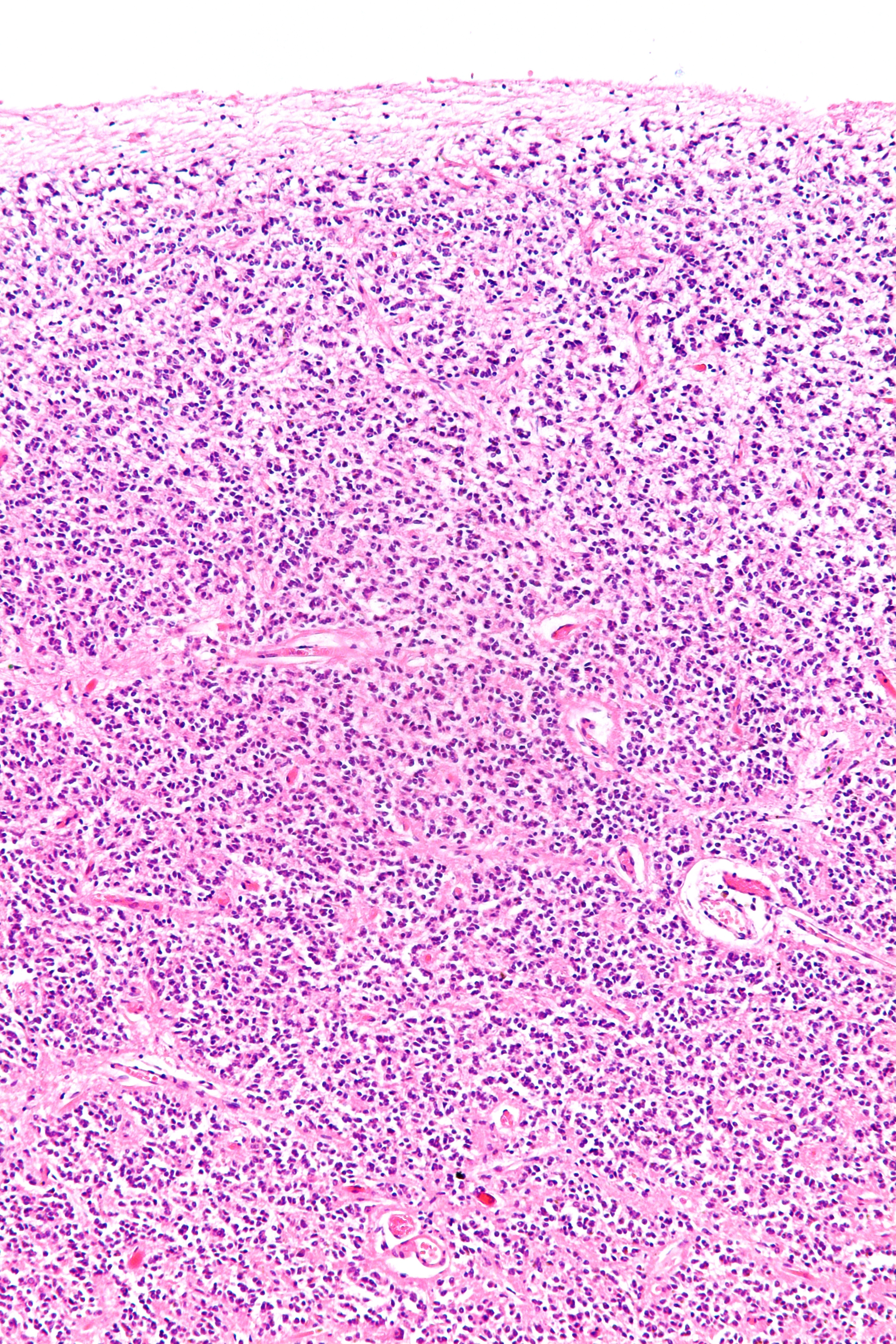 Intermediate magnification micrograph of a normal pineal gland. H&E stain. The pineal gland is very cellular and can be mistaken for a neoplasm.[1] Related images Low mag. High mag. Very high mag. References ↑ Kleinschmidt-DeMasters BK, Prayson RA (November 2006). "An algorithmic approach to the brain biopsy--part I". Arch. Pathol. Lab. Med. 130 (11): 1630–8. PMID 17076524.